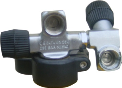 Double cylinder valve with DIN connections for Scuba cylinders. ("H" valve)